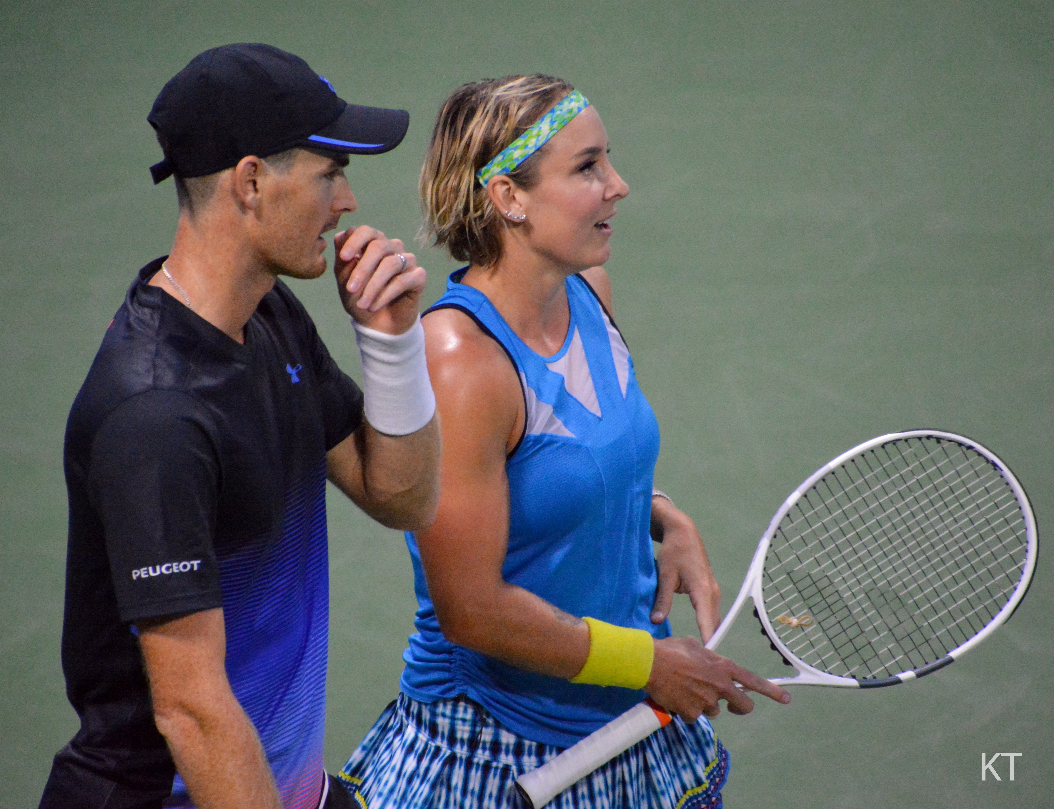 First round mixed doubles, against Amanda Anisimova & Michael Mmoh. Mattek-Sands & Murray won 6-4, 7-6 and went on to win the title. Day 5 of the US Open 2018.